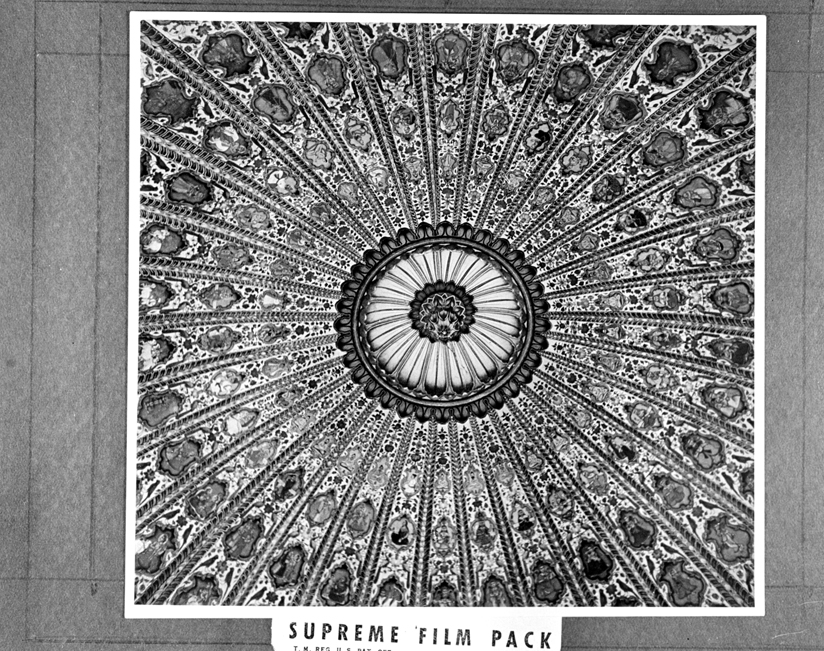 DPD/Aug. 49, A05bThe ceiling of King Surajmal’s cenotaph at Goverdhan near Mathura. Photo Number:-10790